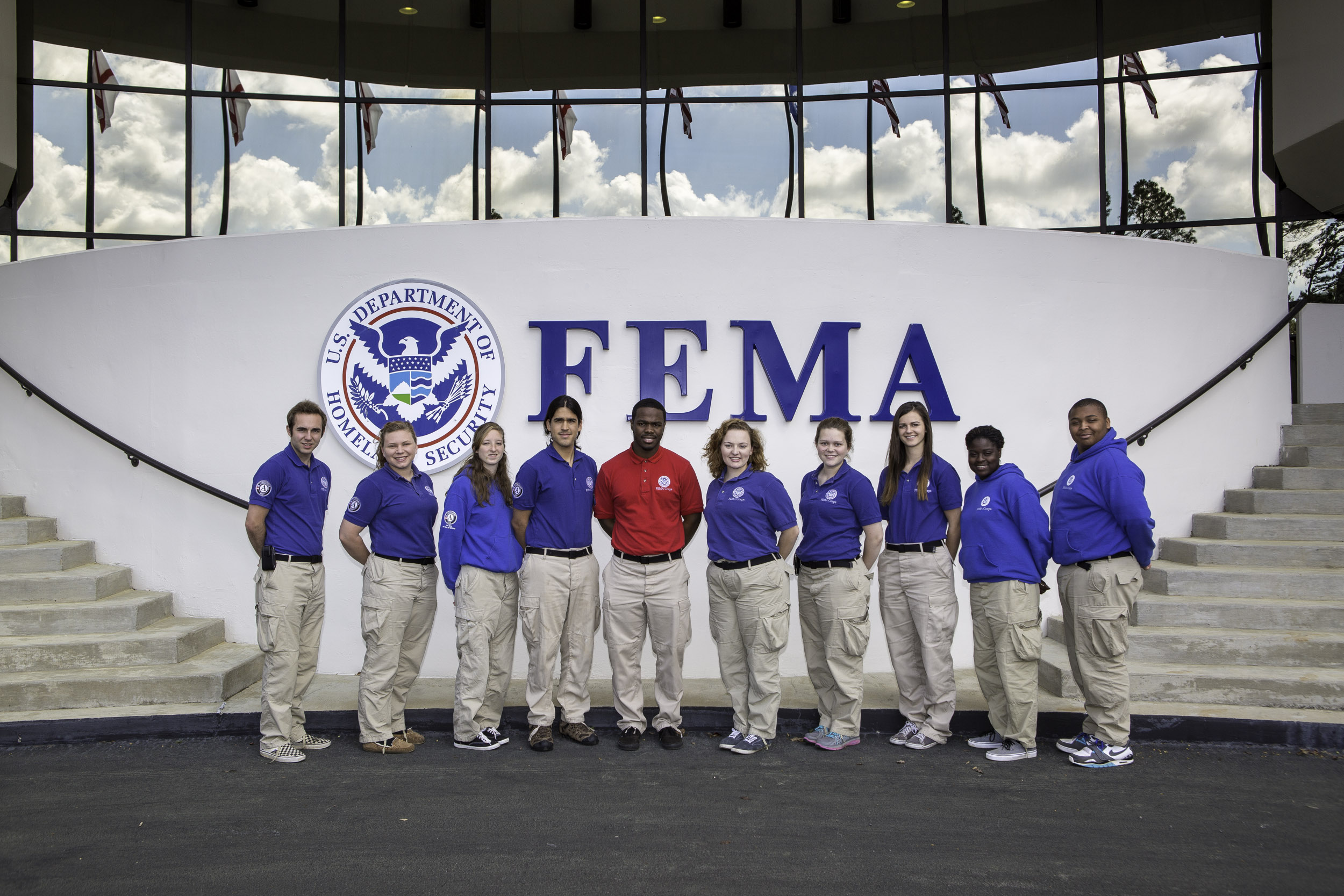 Example of an AmeriCorps NCCC-FEMA Corps Team. Photo Credit: Benjamin Crossley; FEMA